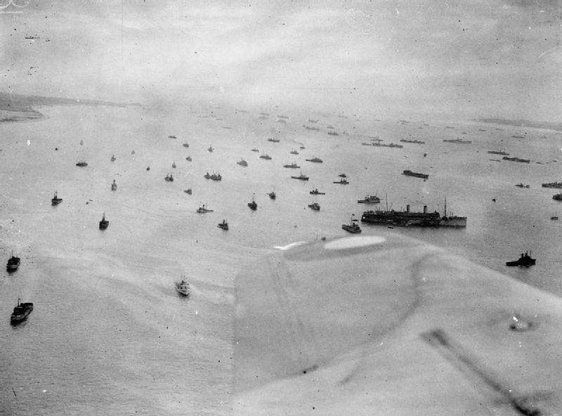 Operation Overlord (the Normandy Landings), 6 June 1944 Aerial photograph of ships of the Royal Navy massing off the Isle of Wight before setting off for the Normandy beaches.